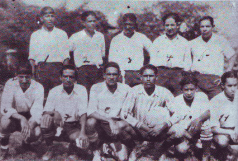 Motagua's first photography, 1928.